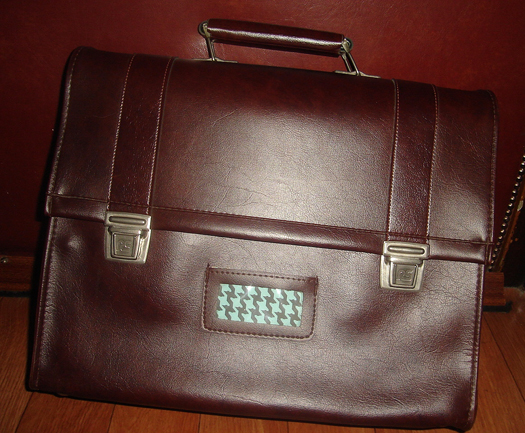 Leather briefcase